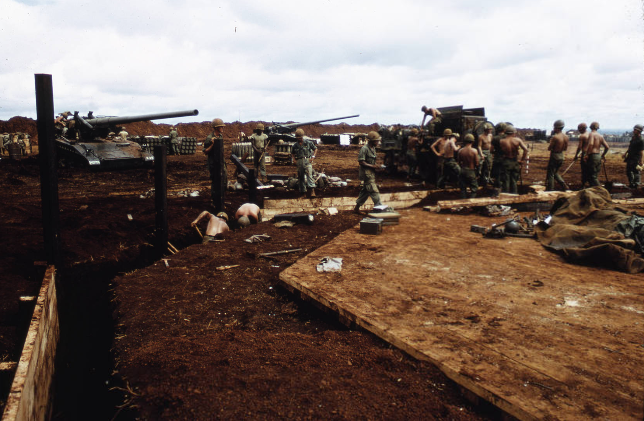 A timber artillery pad is being constructed at Song Be by elements of the 168th Engineer Battalion